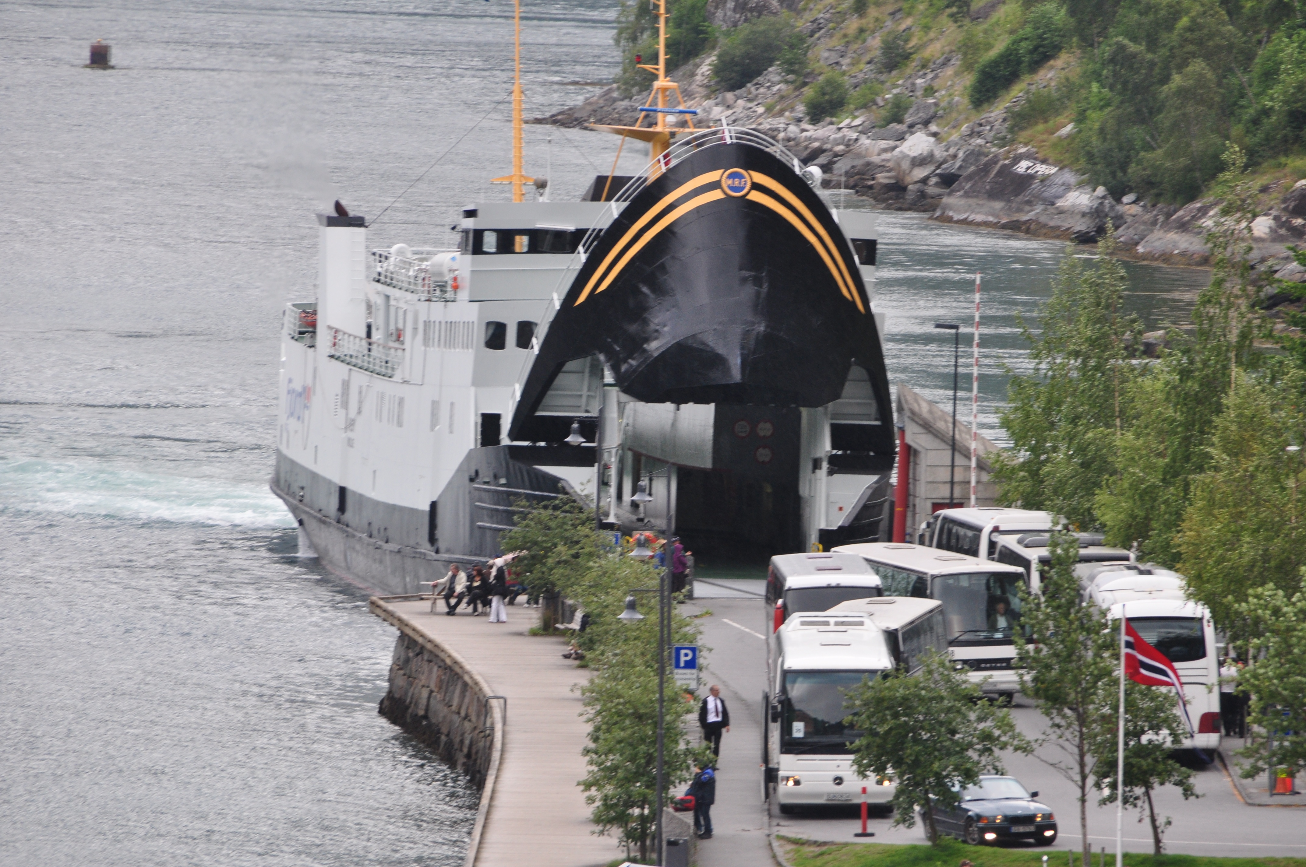 Ferry MF Bolsøy in Geiranger, Norway